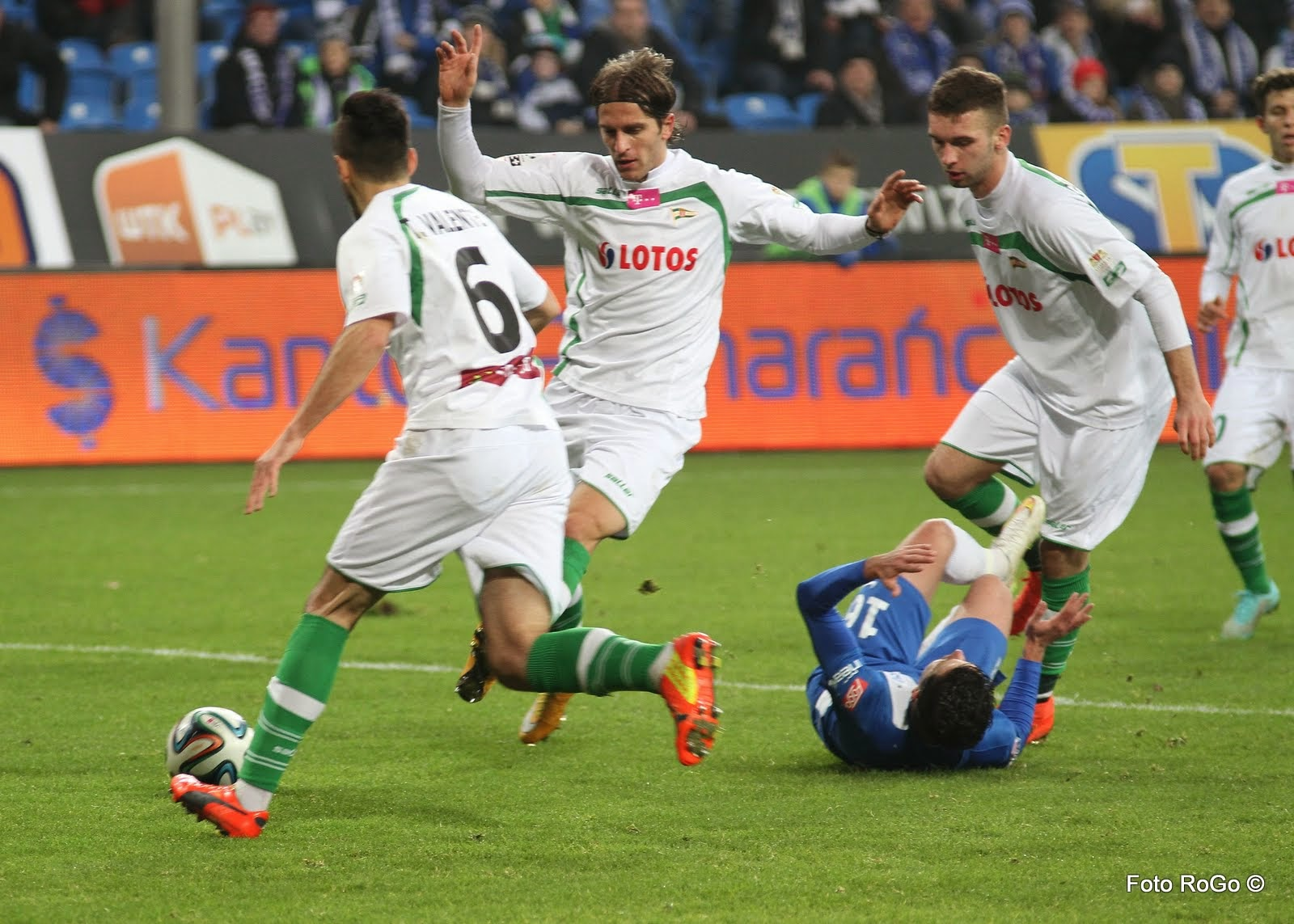 Battle for the ball, during Lech Poznań - Lechia Gdańsk, Ekstraklasa game (2014-12-13).